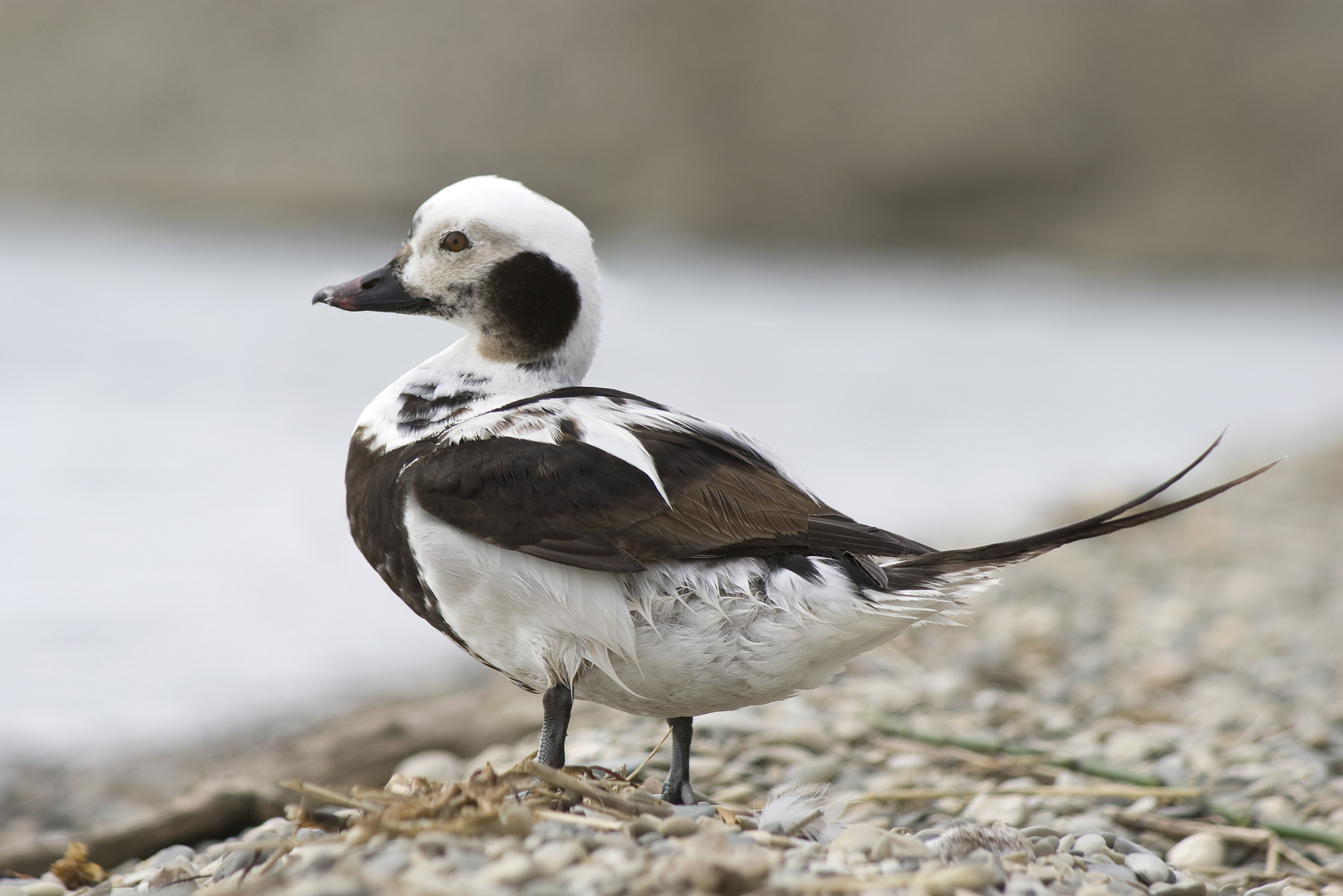 Male long-tailed duck (Clangula hyemalis), Bering Sea, Russia